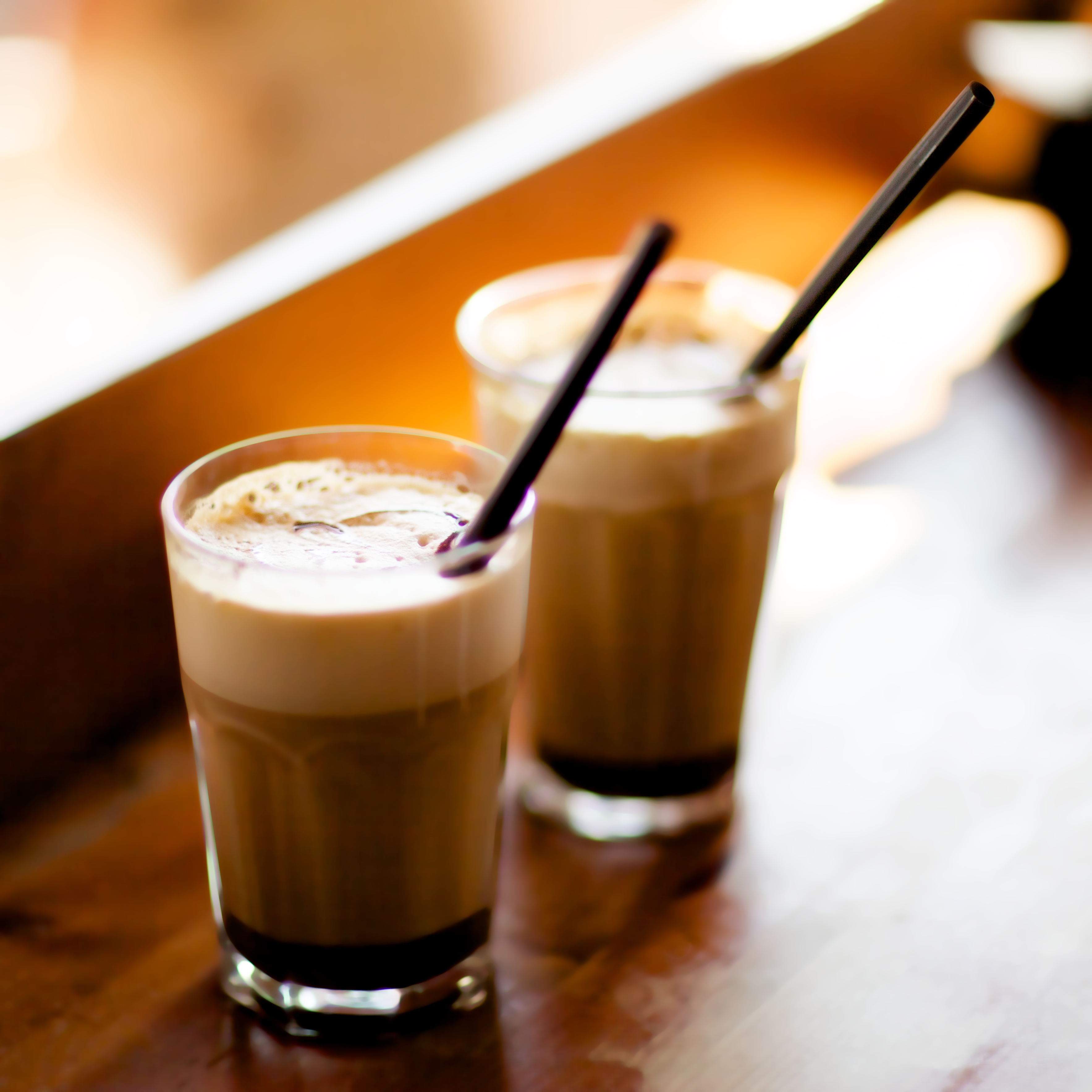 View On Black